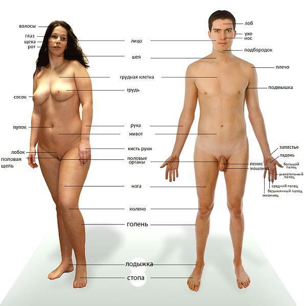 Human male and female - anatomical features pointed out